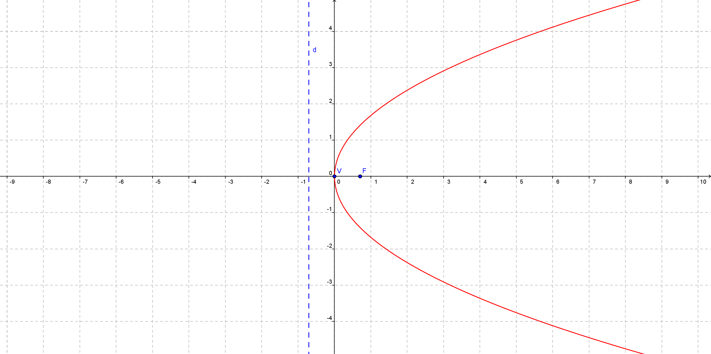 Canonical form of the conic x^2+2xy+y^2−8x=0.